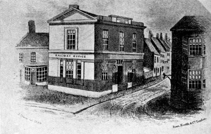 The Stockton and Darlington Railway Office, opened in Darlington in 1830.